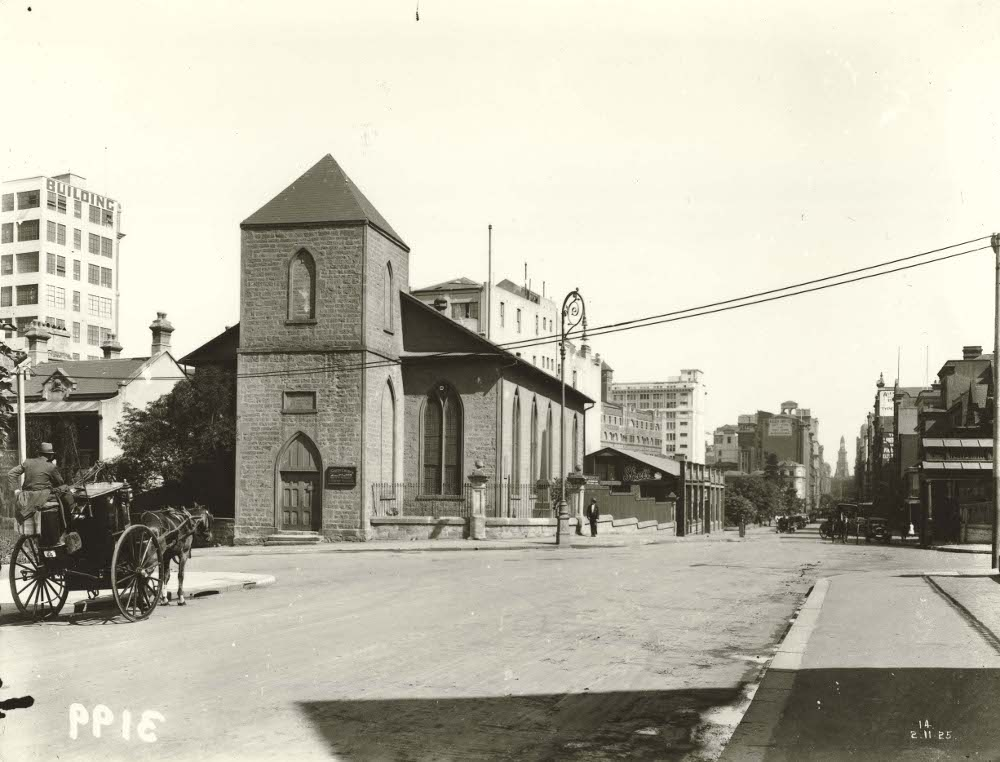 View of York Street showing the old Assembly Hall (Scots Church), Sydney Dated: 2/11/1925 Digital ID: 17420_a014_a014000657 Rights: We'd love to hear from you if you use our photos/documents. Many other photos in our collection are available to view and browse on our website using Photo Investigator.